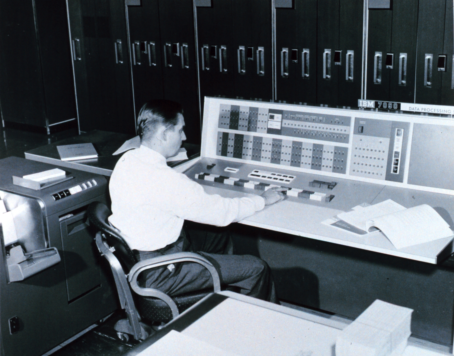 A meteorologist at the console of the IBM 7090 electronic computer in the Joint Numerical Weather Prediction Unit. This computer was used to process weather data for short and long-range forecasts, analyses, and research.